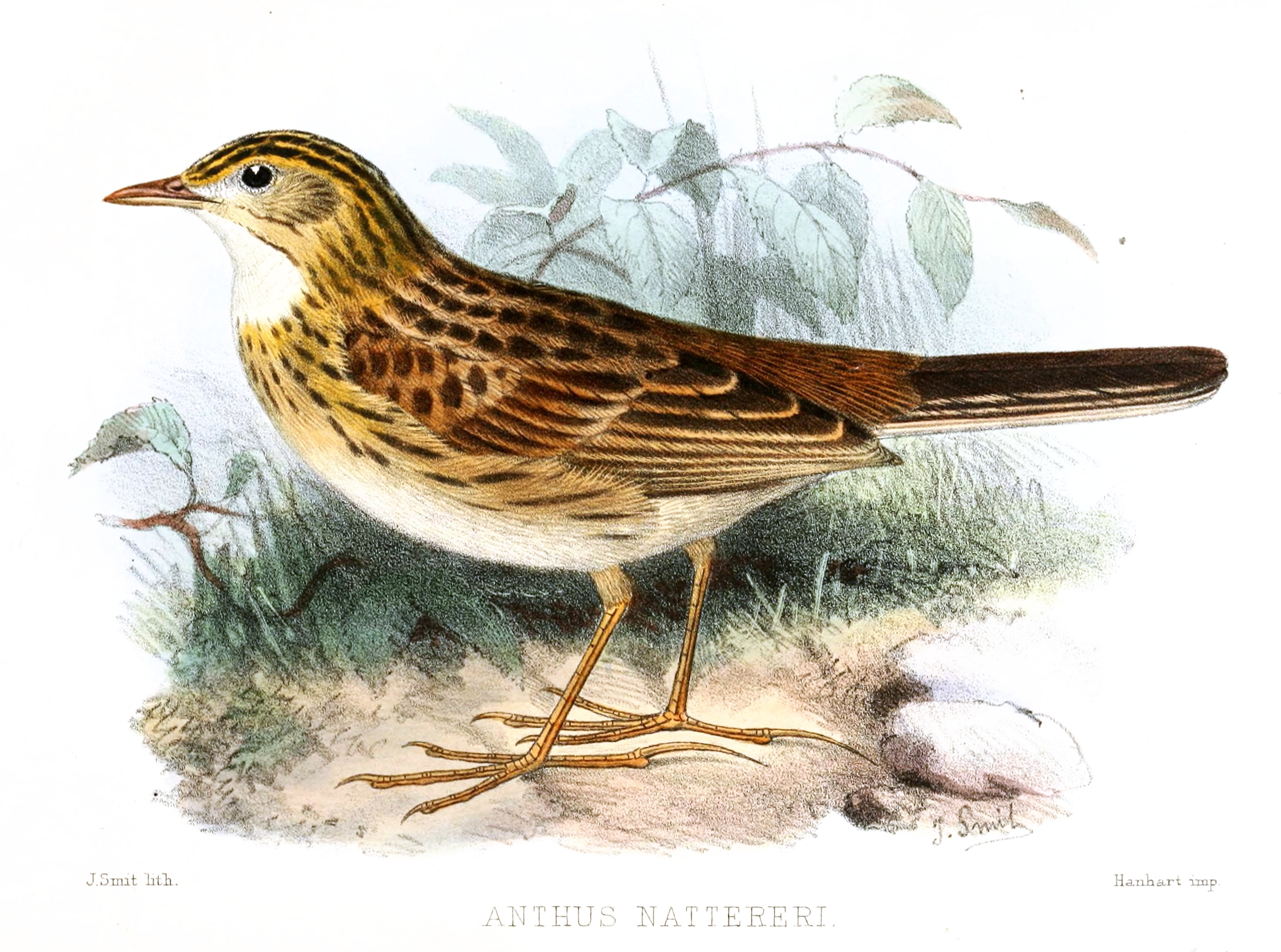 « Anthus nattereri » = Anthus nattereri (Ochre-breasted Pipit) - note: according to P.L. Sclater himself (NB under the figure 3), the bill is ma rather too large